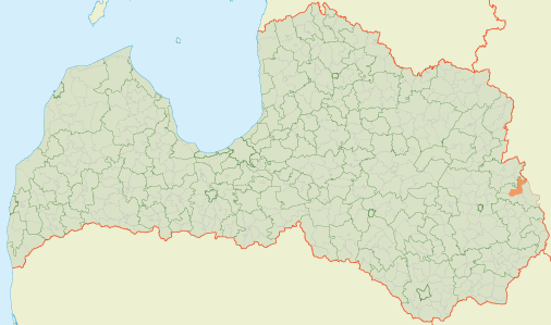 Location map of Blonti parish, Latvia